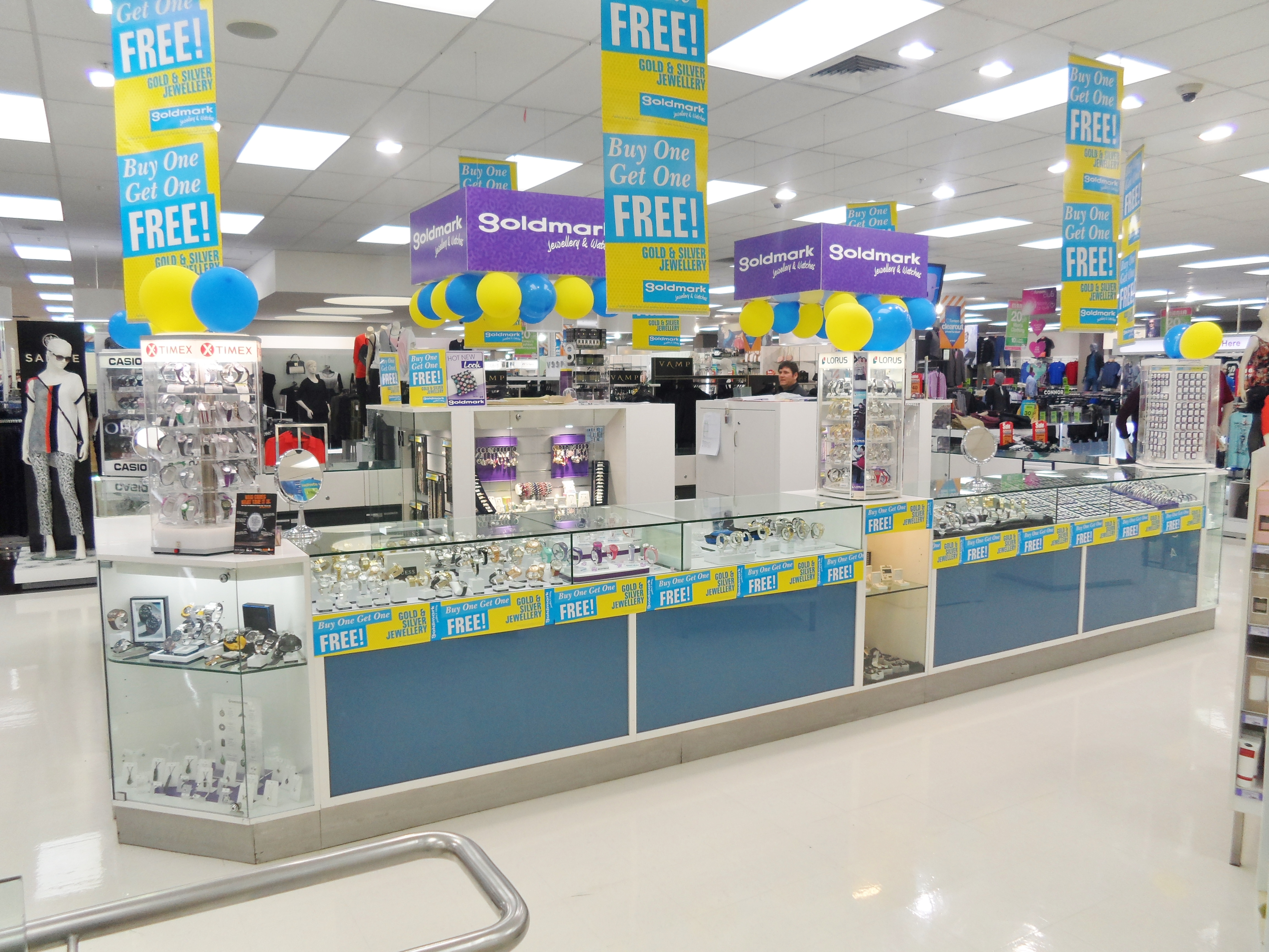 Kiosk for jeweller Goldmark within department store Farmers in Dunedin in 2013.